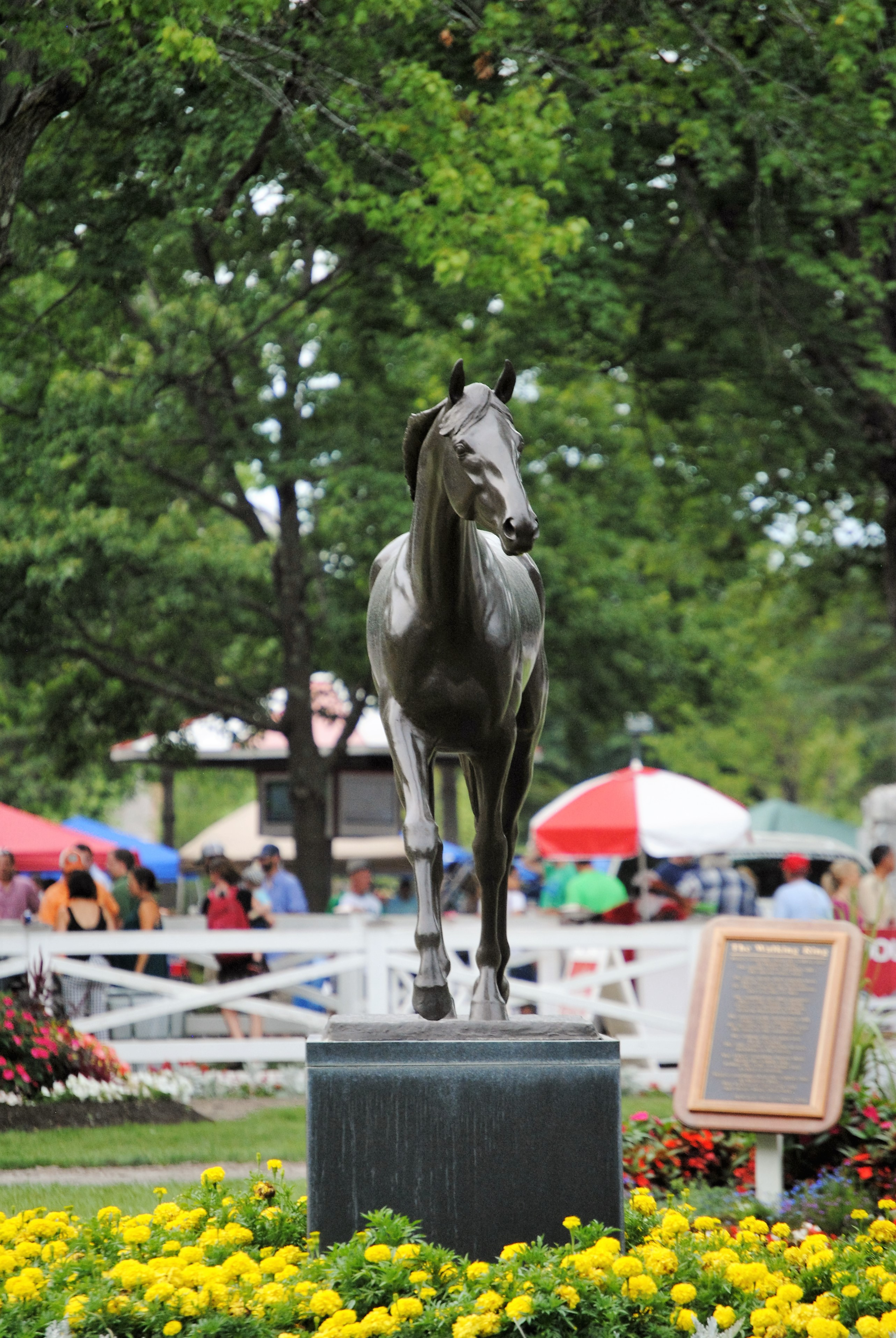 Statue of Sea Hero at Saratoga racetrack